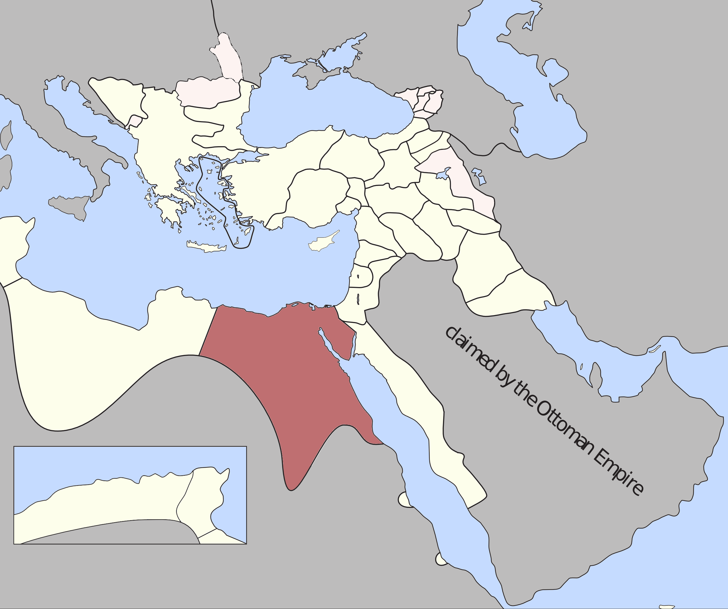 XY Eyalet, Ottoman Empire (1795). Source: A Brief History of the Late Ottoman Empire at Google Books By M. Sukru Hanioglu, Figure 1